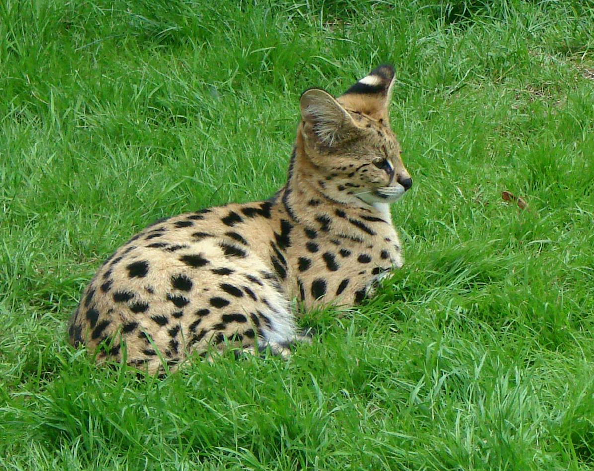 A young serval (Leptailurus serval) in Thoiry Zoo.